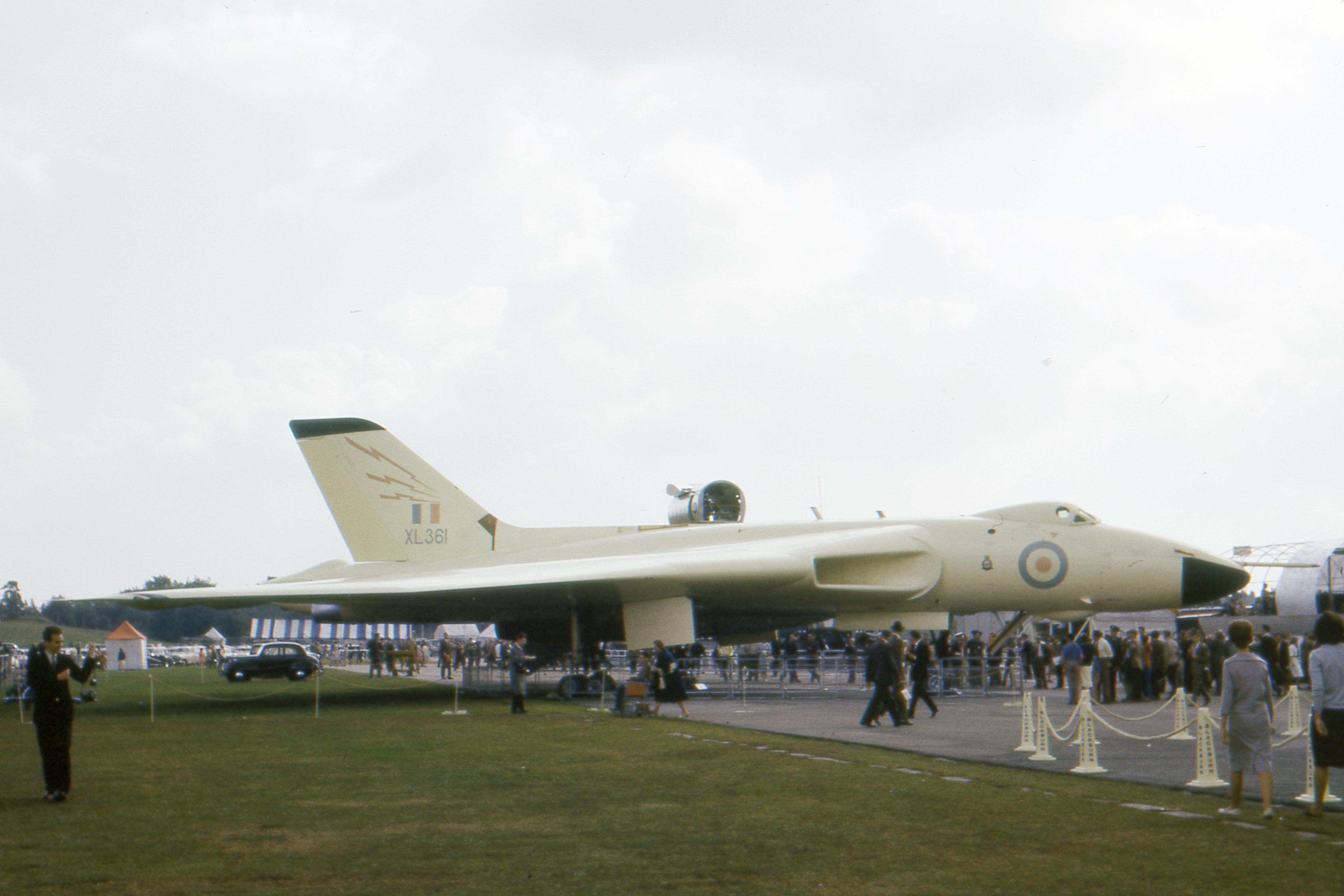 Avro Vulcan B.2 at the SBAC show at Farnborough 8 September 1962.